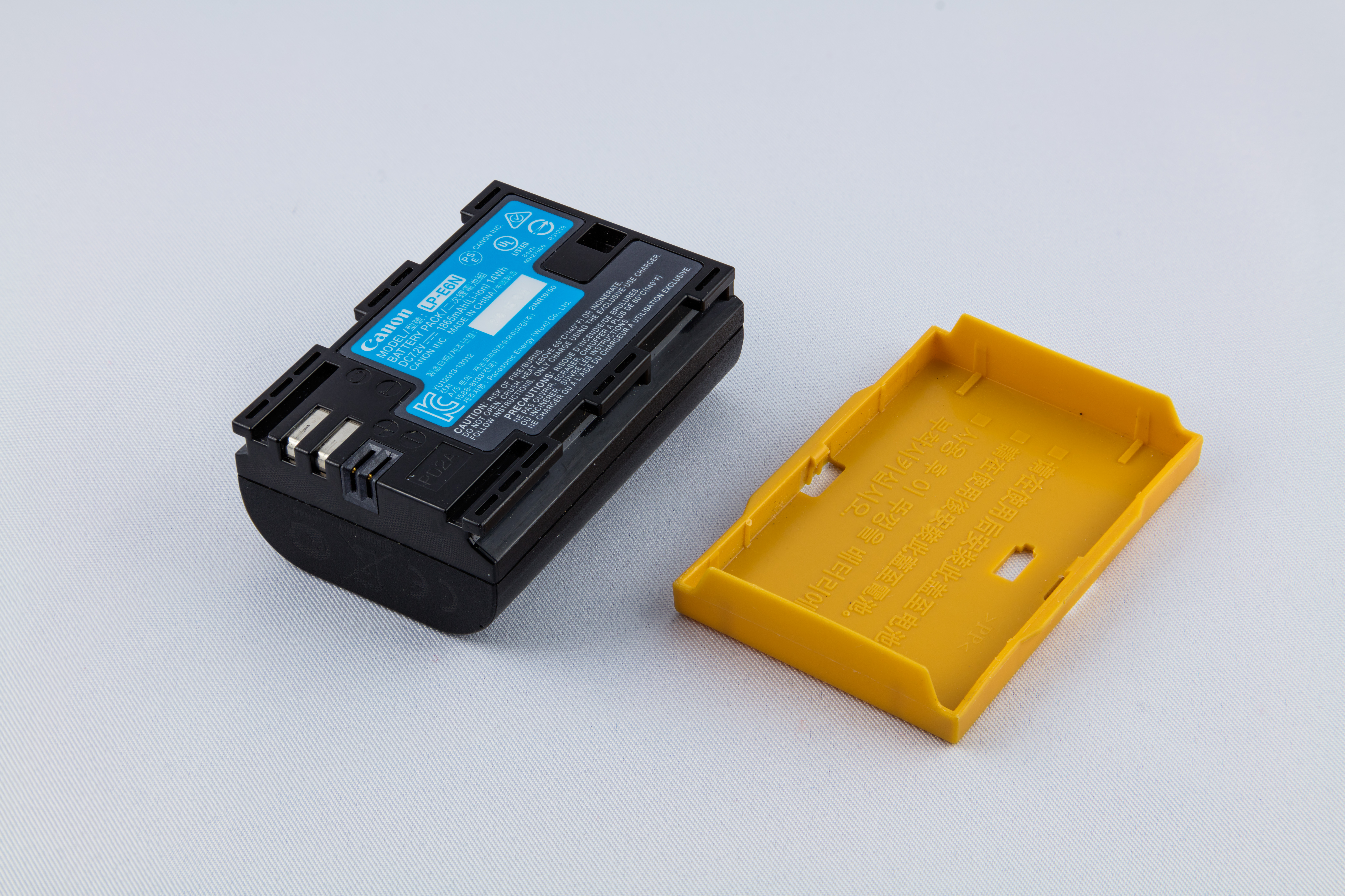 Canon LP-E6N battery